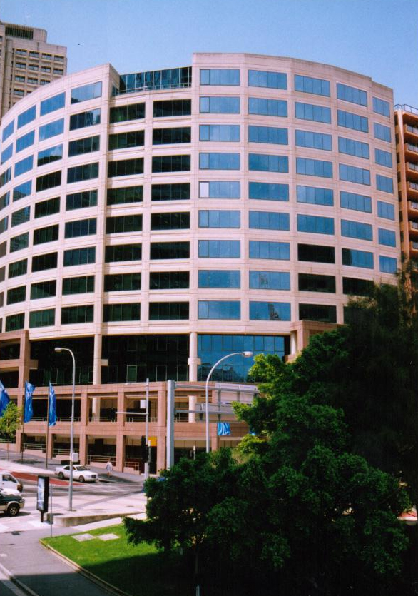 St Andrew's Cathedral School Bishop Berry Senior College